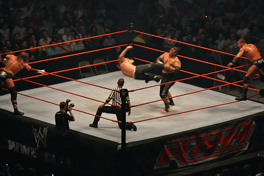 Jeff Hardy performing a low dropkick on Umaga. Taken during the WWE Raw - Survivor Series Tour, at Rod La & Triple H; the match was won by Triple H pinning Orton following a pedigree.